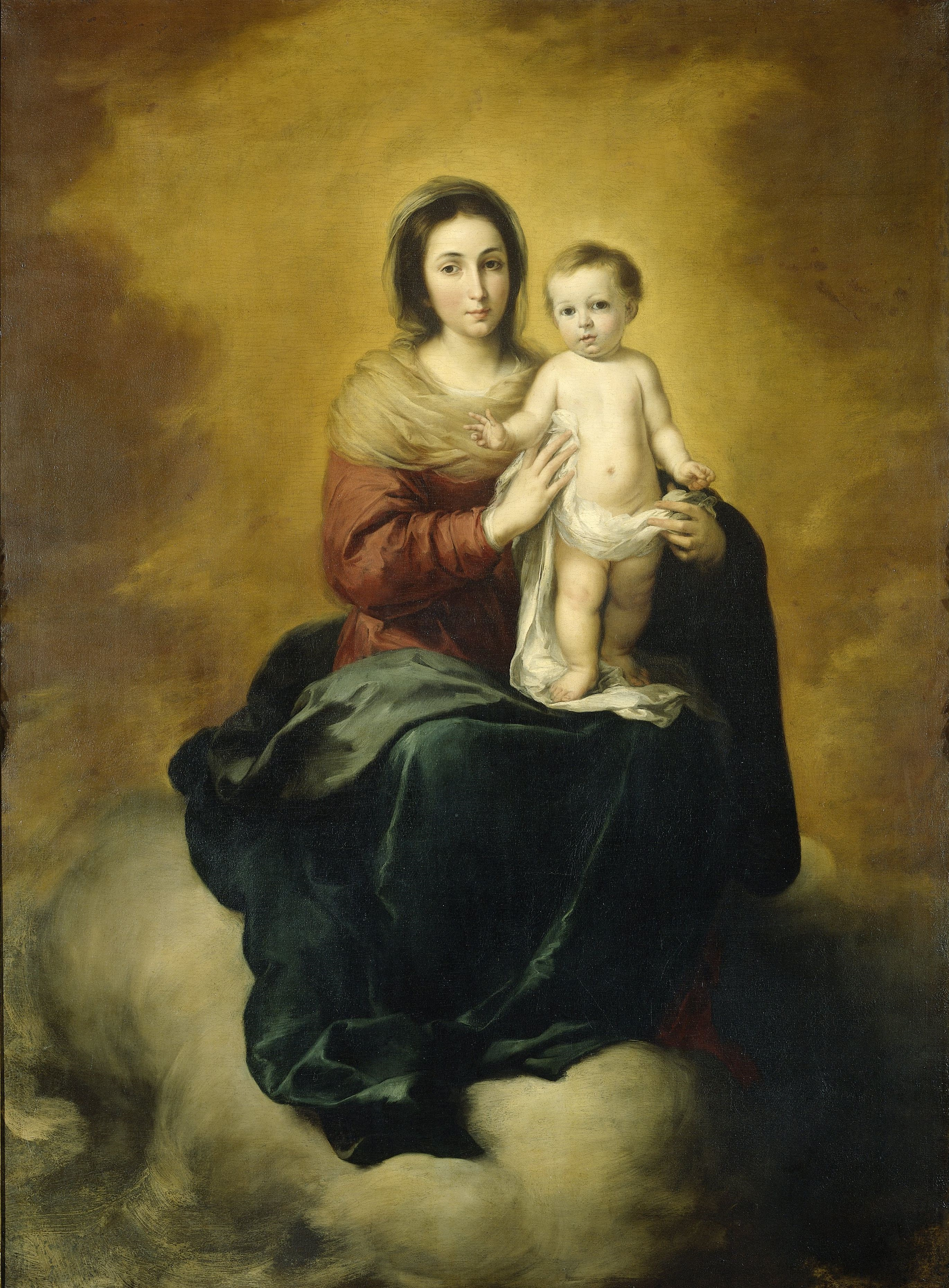 Mary, sitting on the clouds, is holding the Christ child, standing on her lap, with both hands.